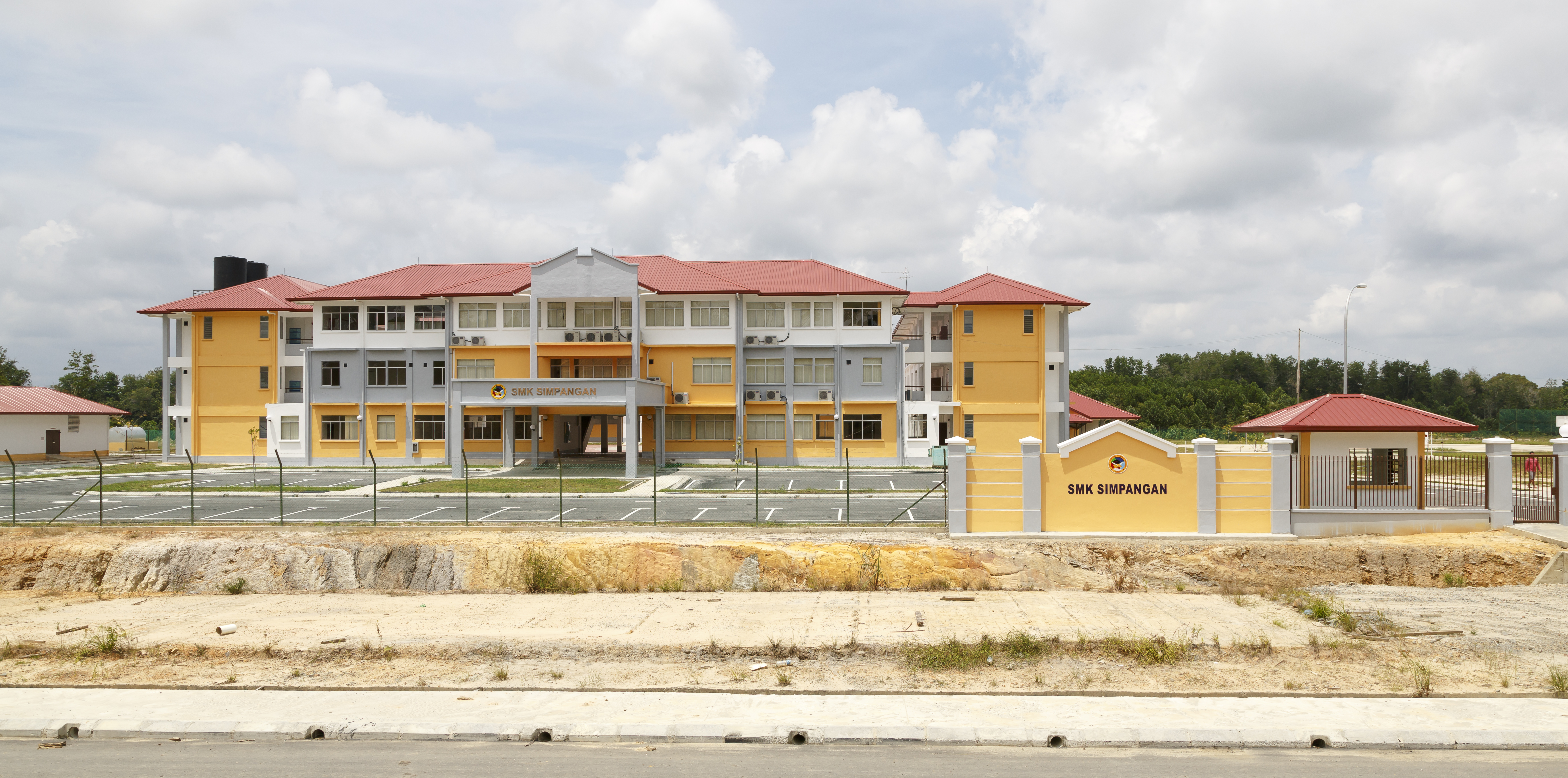 Paitan, Sabah: SMK Simpangan, a newly built secondary school